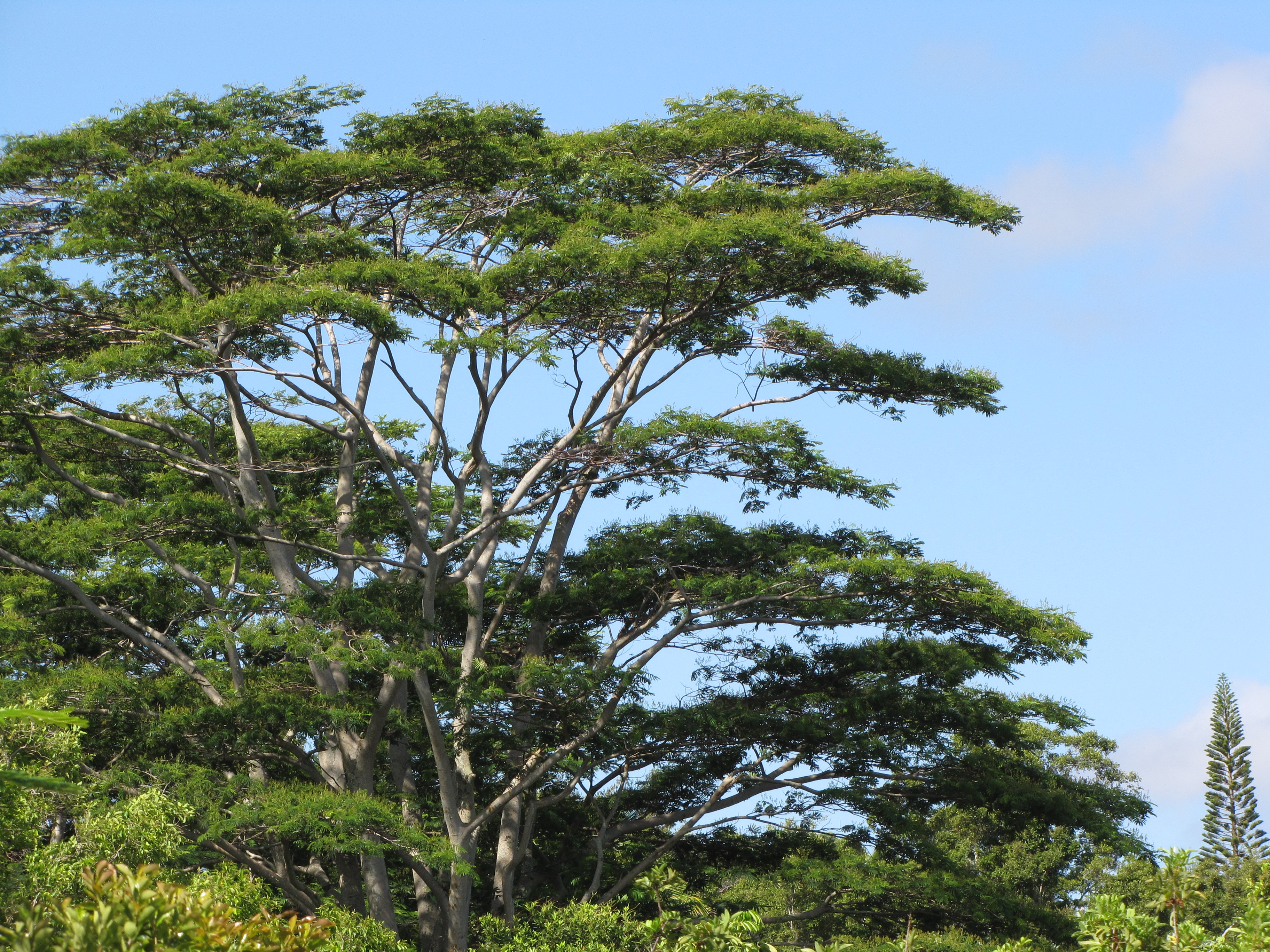 Falcataria moluccana (Moluccan albizia) Habit at Haiku, Maui, Hawaii. June 10, 2009 #090610-0451 Image Use Policy Also known as Paraserianthes falcataria and Albizia falcataria.